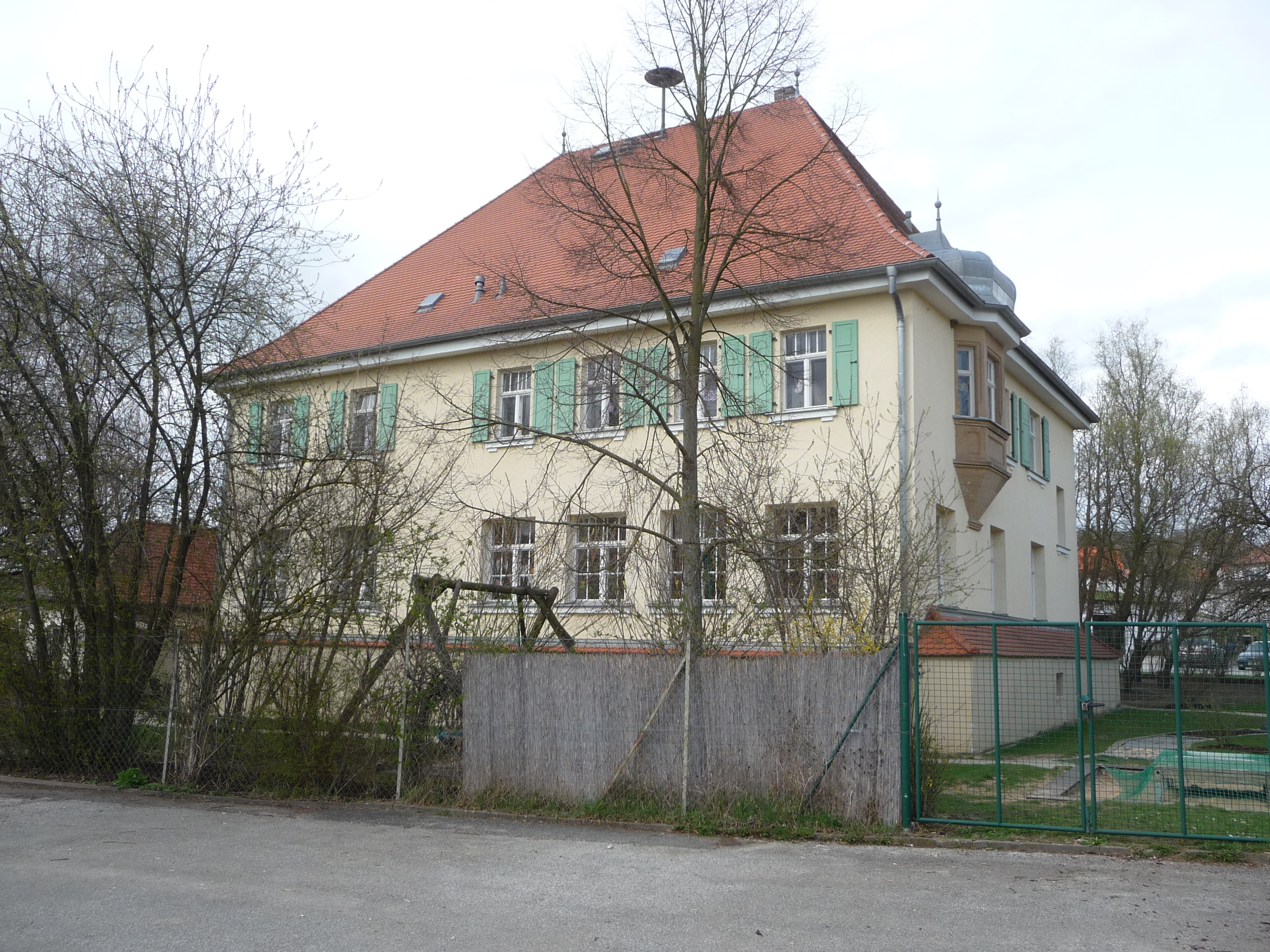 Gunzendorf